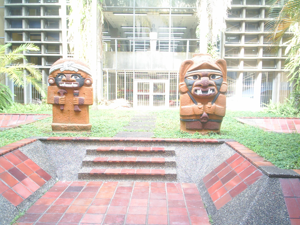 Statues of Bajos de Biblioteca